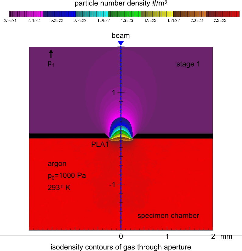 Isodensity contours at the values indicated on color bar for argon gas flow through 0.5 mm aperture ( PLA1) from specimen chamber at pressure p0=1000 Pa and room temperature 293 kelvins, into low pressure region of stage 1 held at pressure p1. Electron beam travels from vacuum region above along the axis against the supersonic gas jet formed.